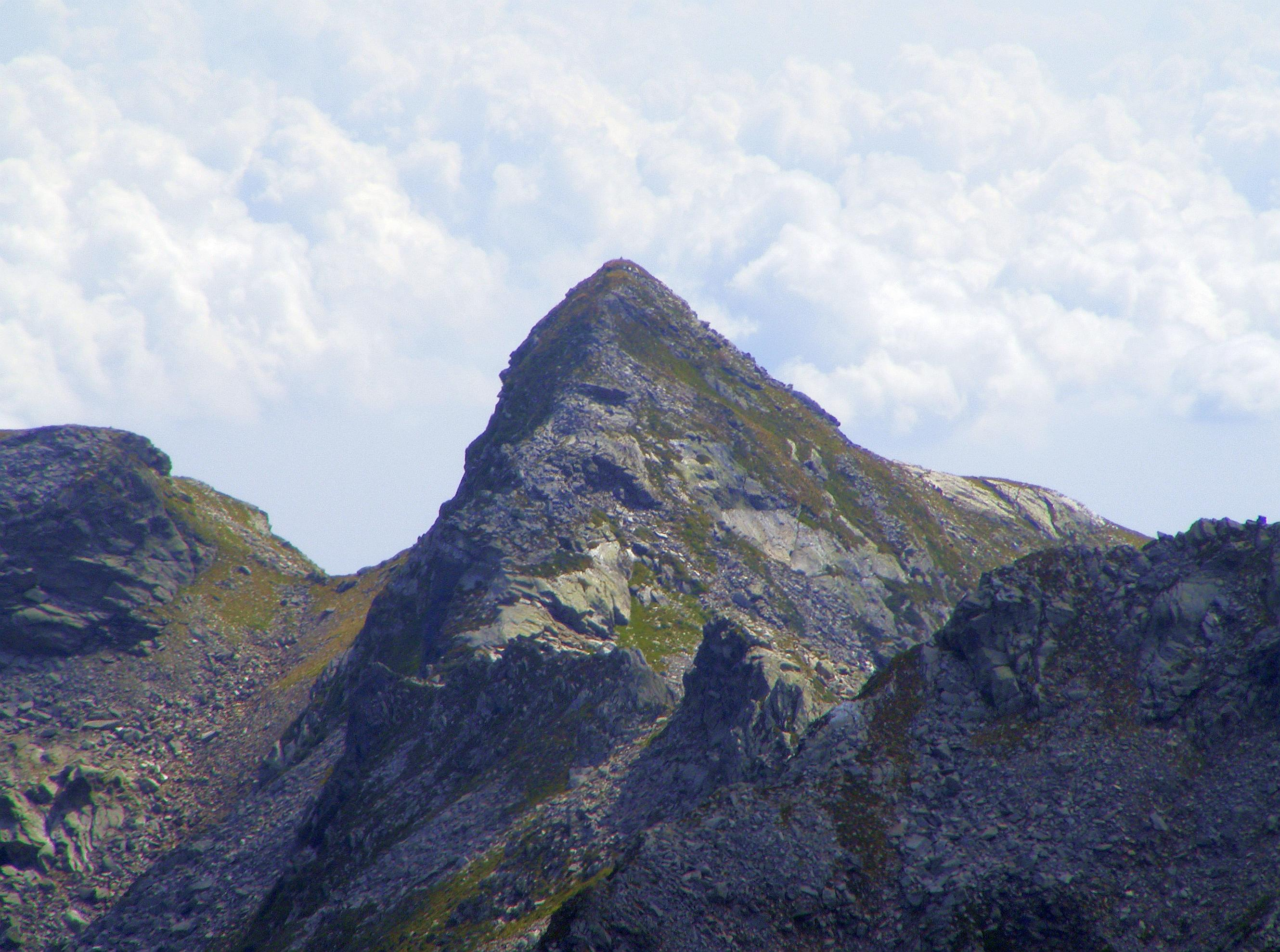 Punta della Barma (Alpi Biellesi, Italy) from monte Pietra Bianca